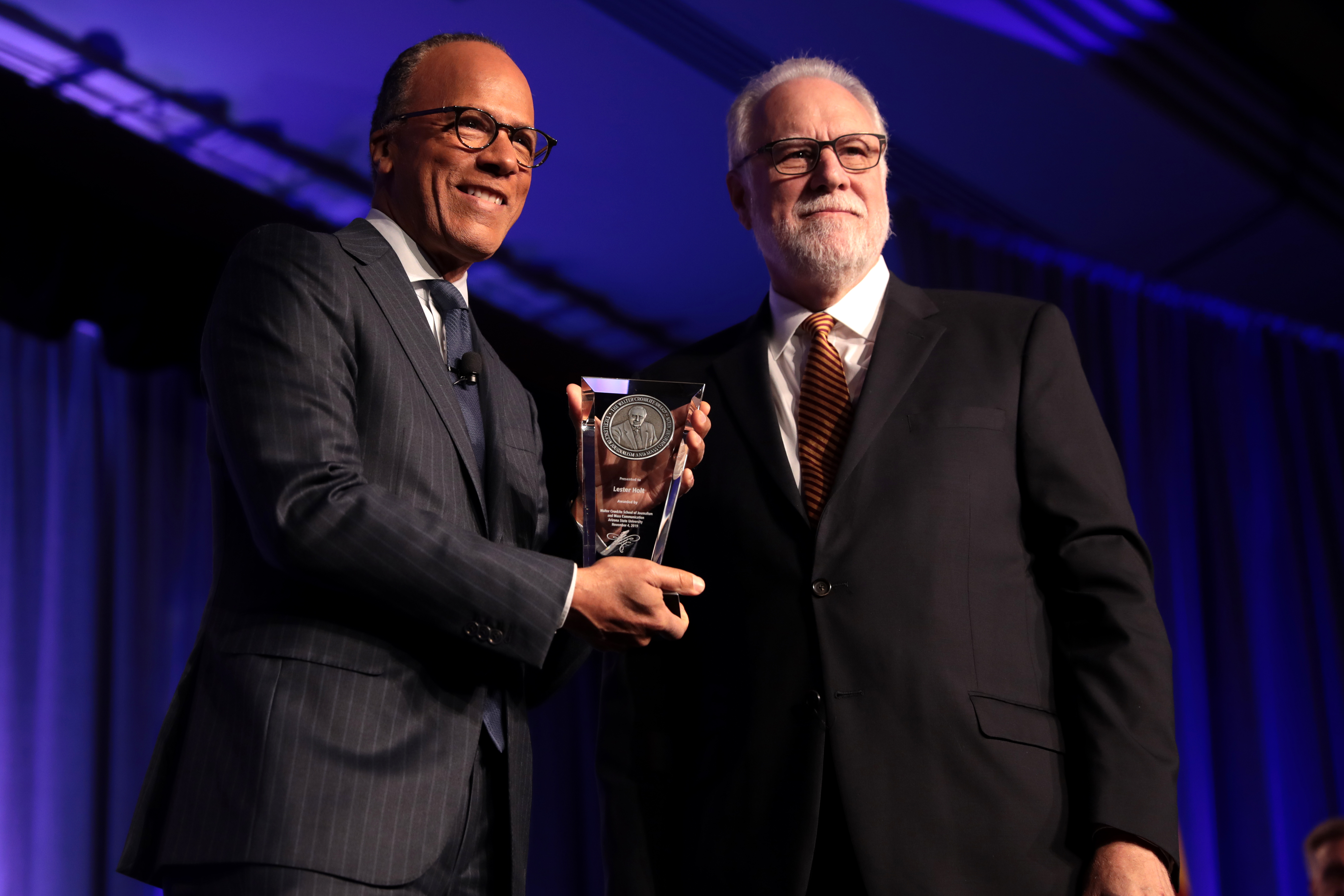 Lester Holt being presented the Walter Cronkite Award for Excellence in Journalism by Mark Searle at the 36th Annual Cronkite Award Luncheon at the Sheraton Grand Phoenix in Phoenix, Arizona.